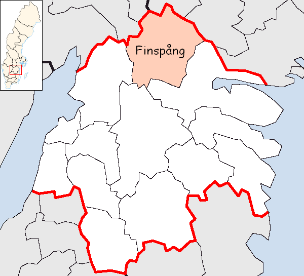 Finspång Municipality in Östergötland County Designed by me. Mere outlines are a PD source from